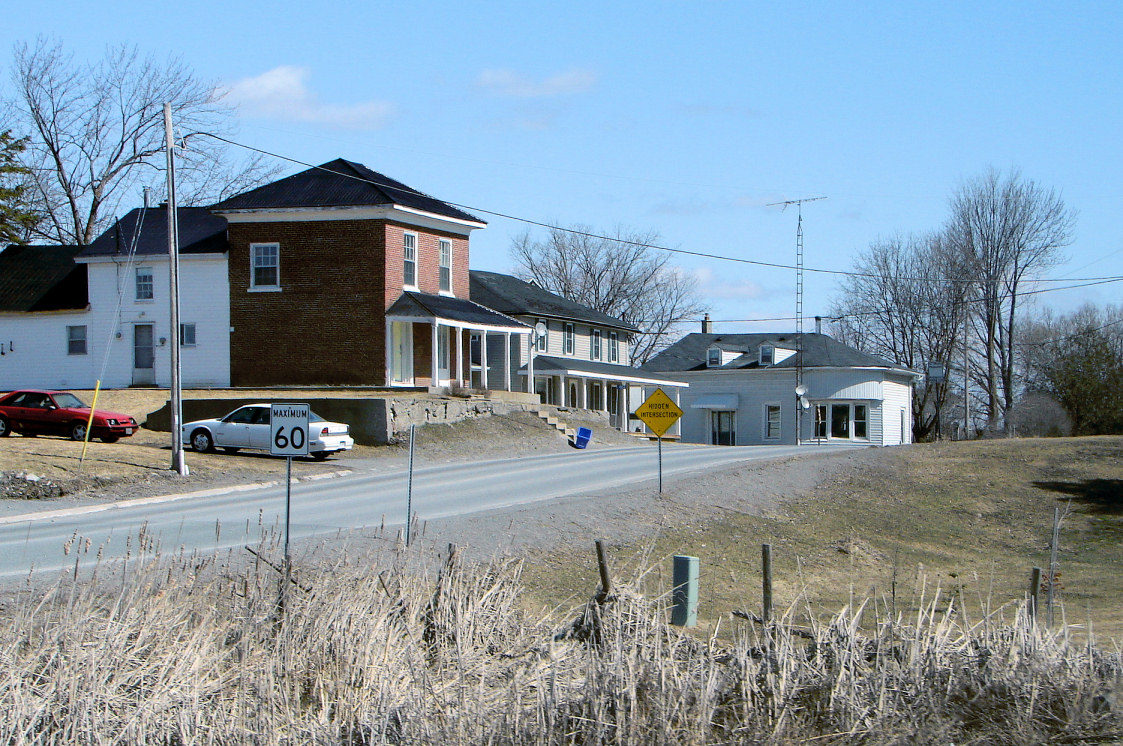 Roslin, Hastings County, Ontario, Canada